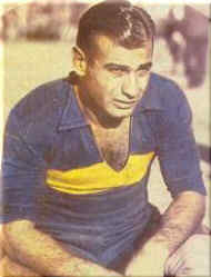 Francisco Varallo during his time with Boca Juniors in Argentina. He played his last game for the club in 1940.